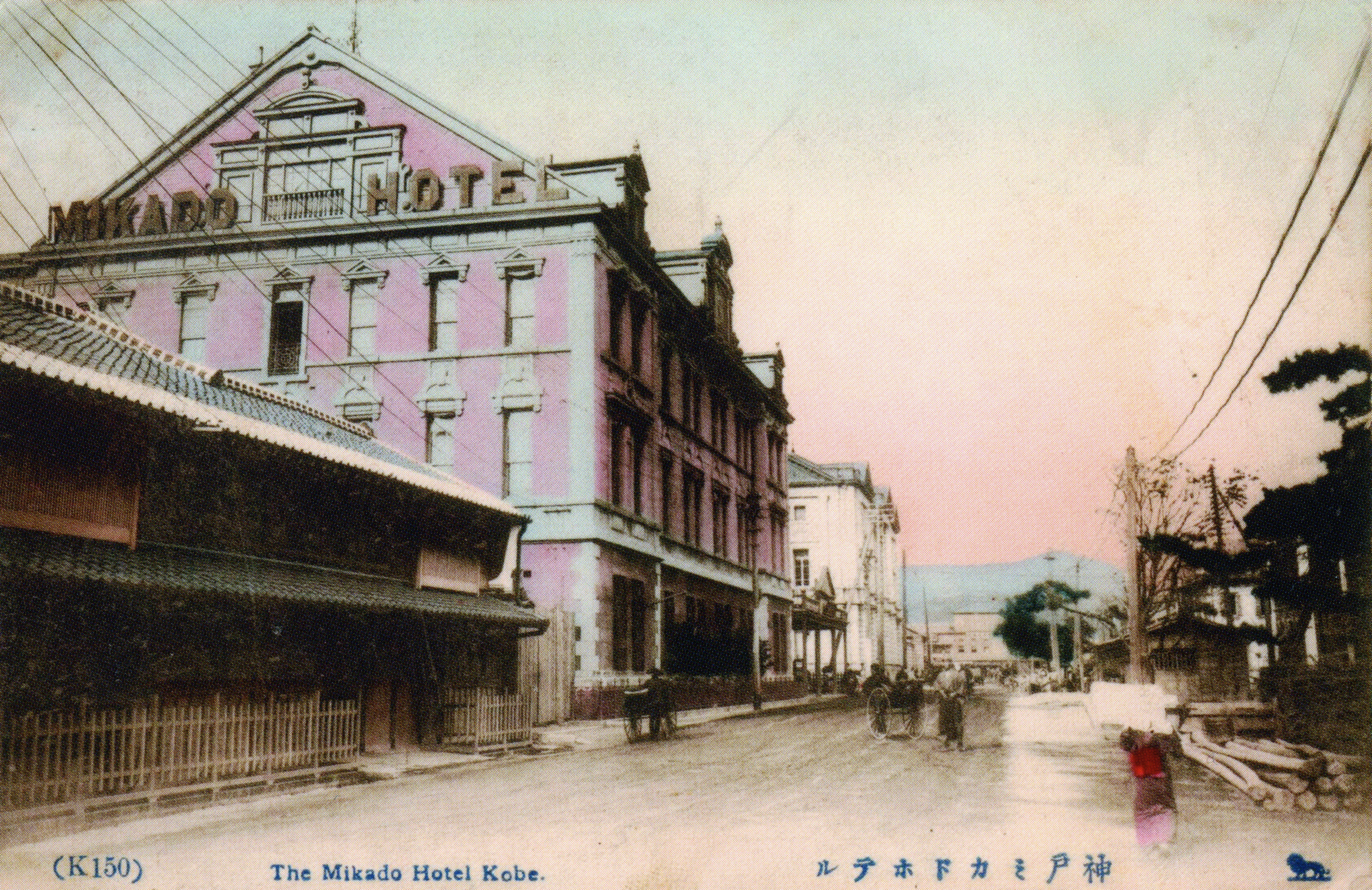 Mikado Hotel (Later Suzuki & Co. headquarters building) in Kobe, Hyogo prefecture, Japan. Opening in 1897. This photograph is the new building. It was built in 1906, and lost in 1918. Design by Kozo Kawai (1856-1934).